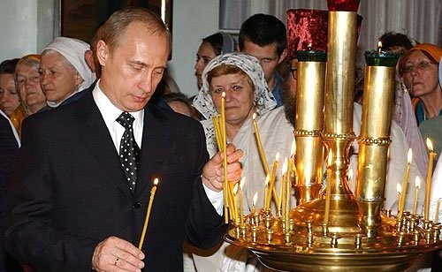 Visit to Tajikistan and 201st Motorised Rifle Division